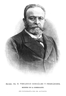 Spanish Politician Venancio González y Fernández